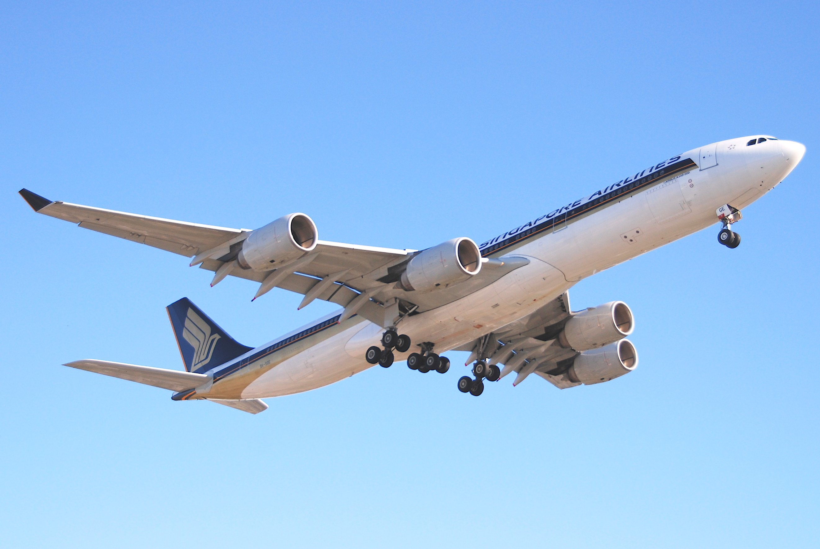 Singapore Airlines Airbus A340-500; 9V-SGE@LAX;08.10.2011/620ds